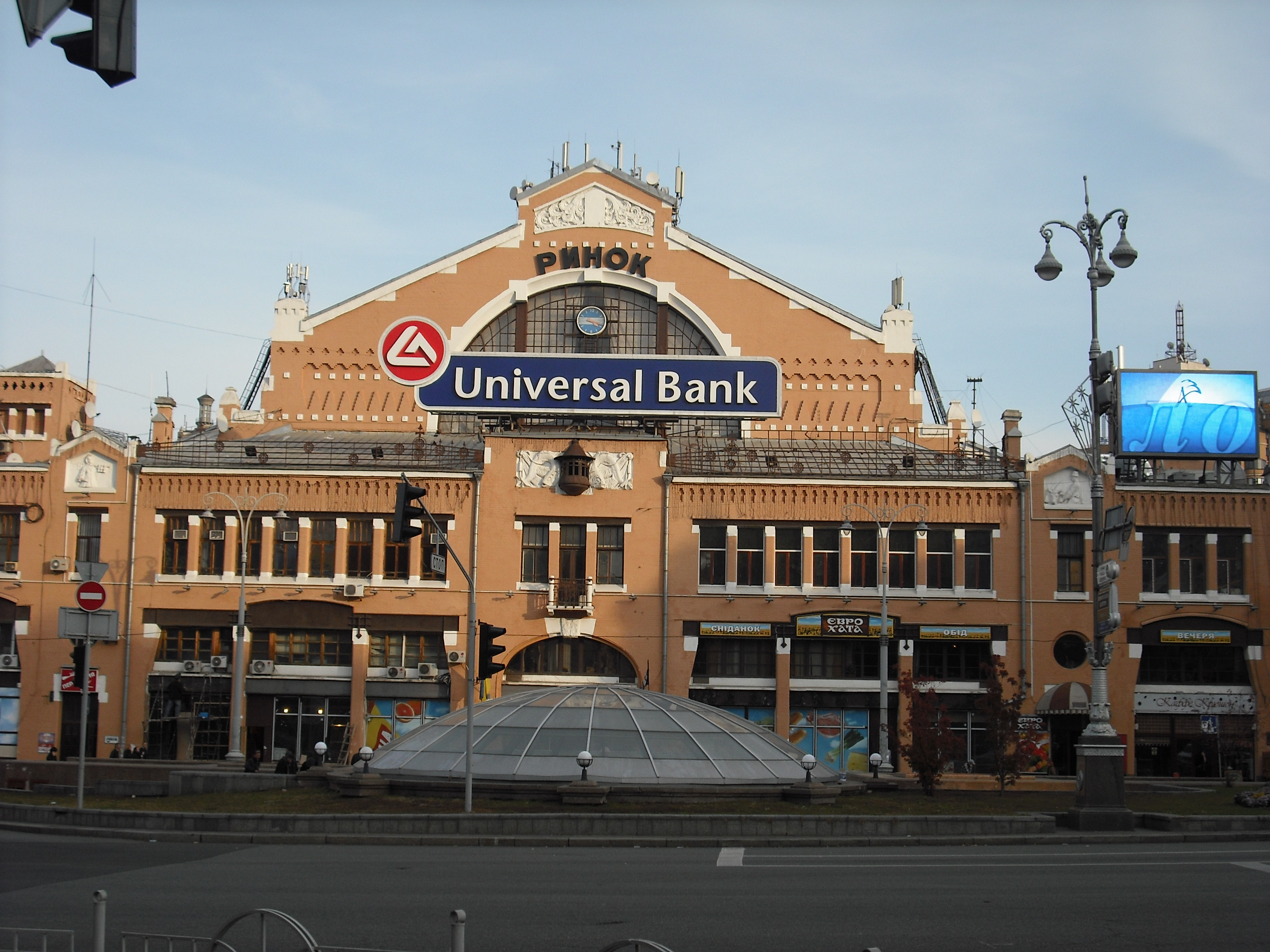 Kiev - Khreshchatyk Street -Bessarabskyi Market